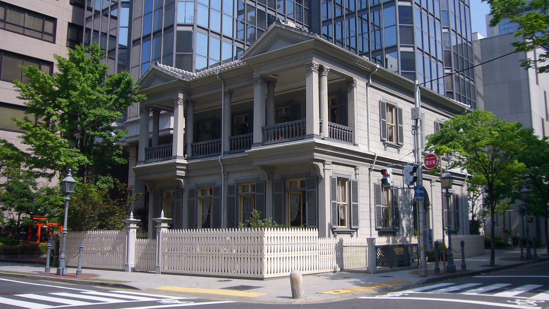 The Old Settlement Hall of No.15 in Kobe, Japan